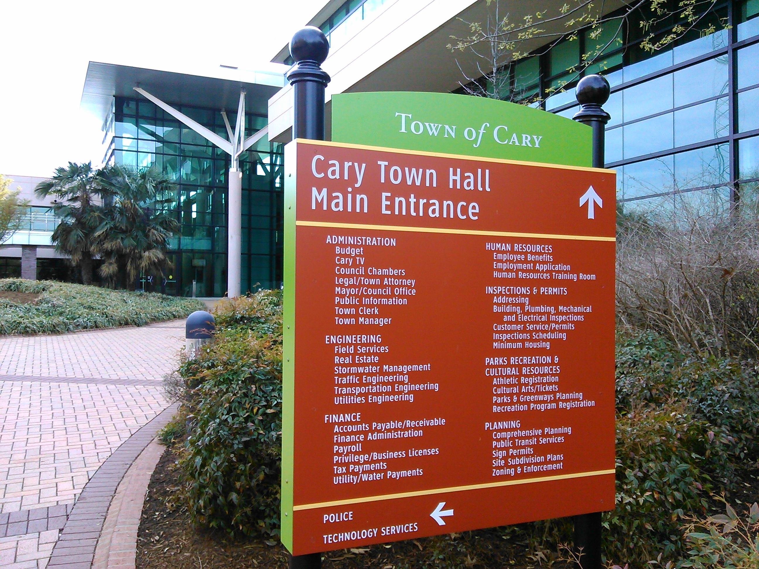 Cary, NC Town Hall and Government Offices